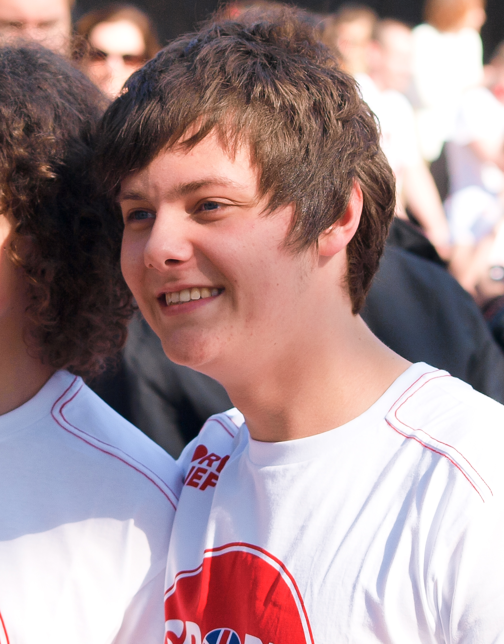 A photograph of Tyger Drew-Honey at the Sport Relief Mile 2012 in London.